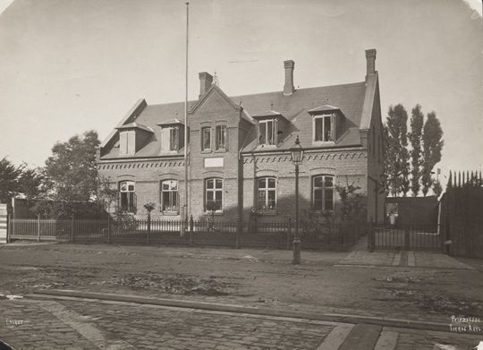 Prinsesse Thyras Asyl at Rantzausgade 48 in Copenhagen, Denmark